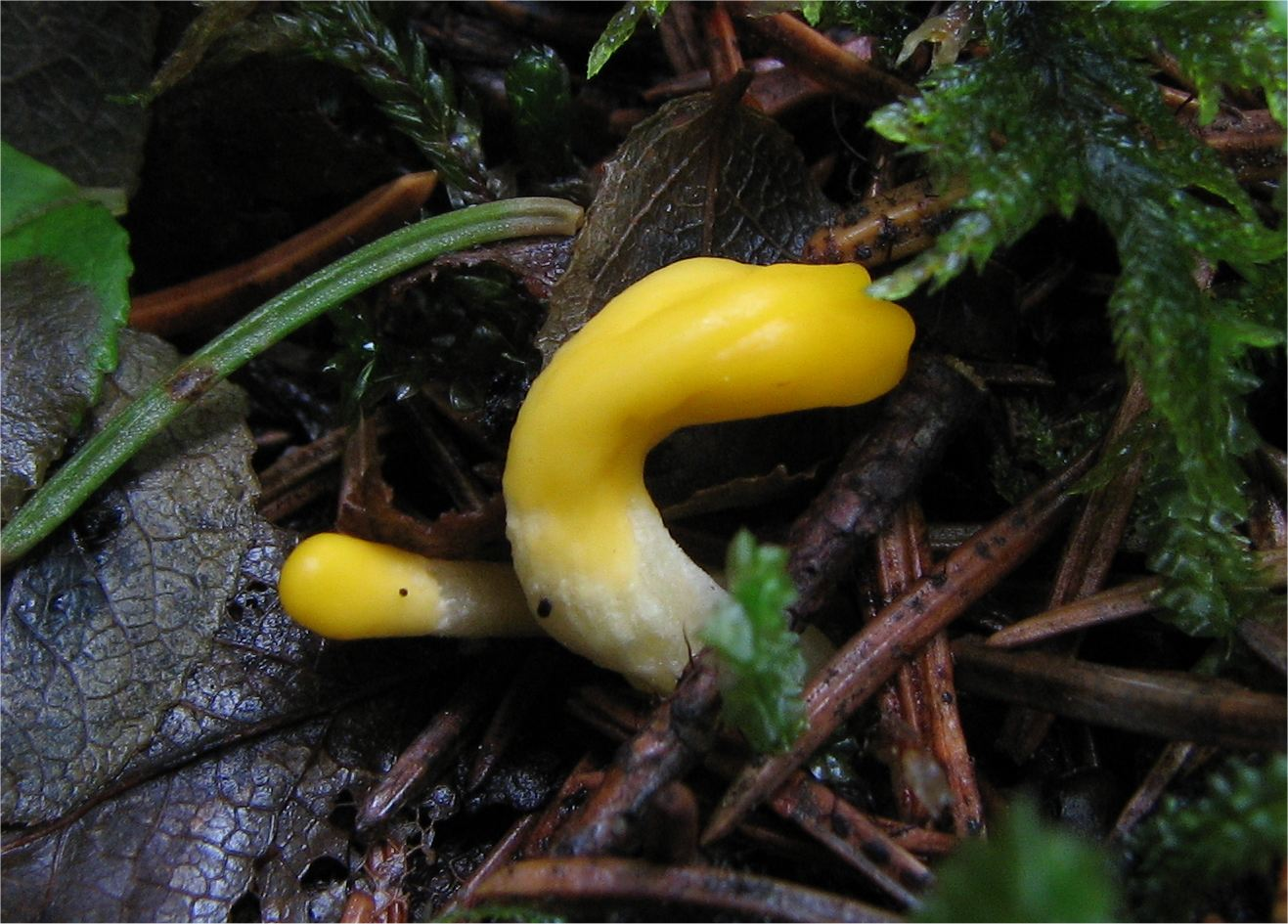 Neolecta vitellina (Bres.) Korf & J.K. Rogers Location: Hörnefors, Västerbotten, Sweden For more information about this, see the observation page at Mushroom Observer.